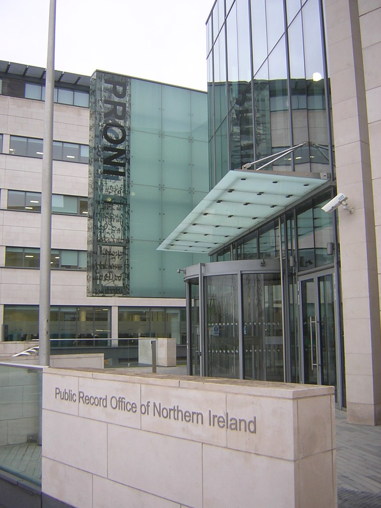 Public Record Office of Northern Ireland entrance, Titanic Quarter, Belfast